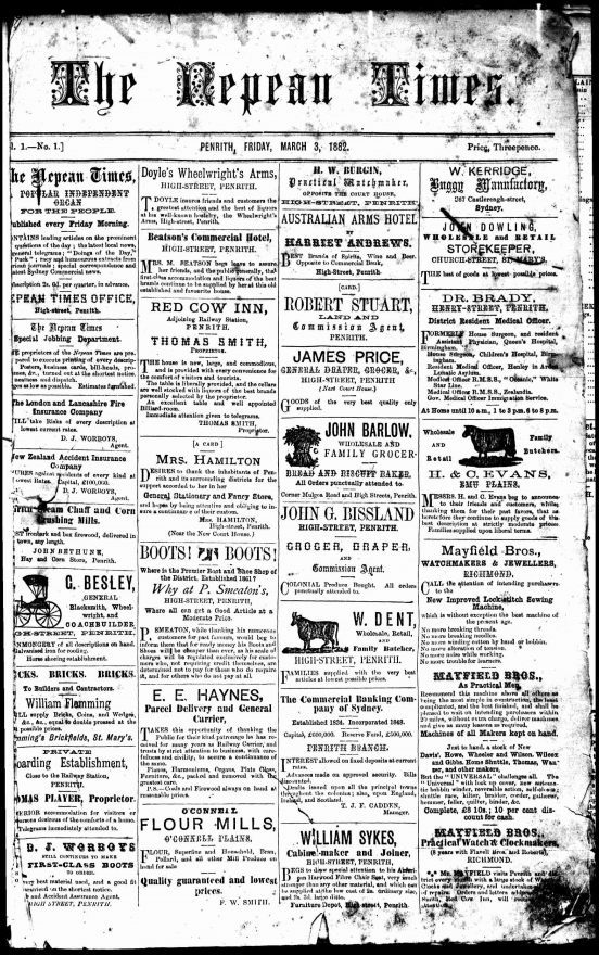 The front page of the Nepean Times on 3 March 1882.